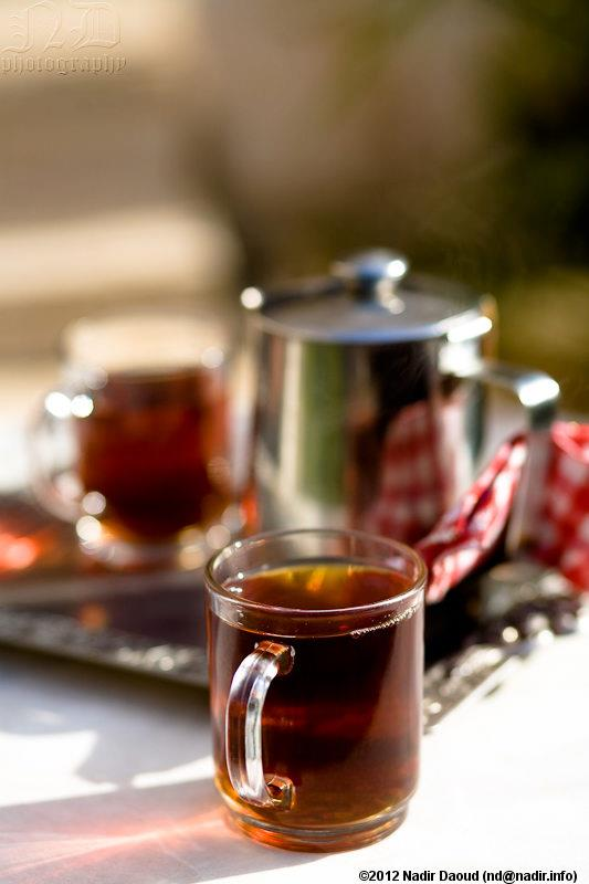 Tea Time